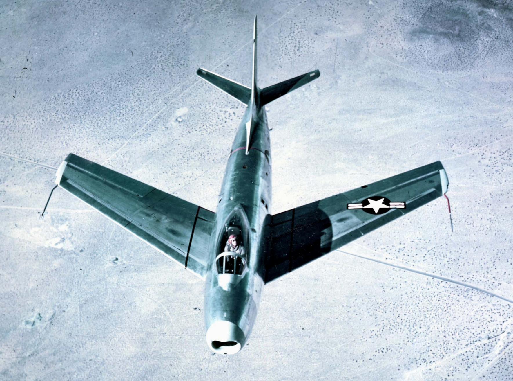 The first U.S. Air Force North American XP-86 Sabre (s/n 45-59597) in flight. It made its first flight on 1 October 1947.